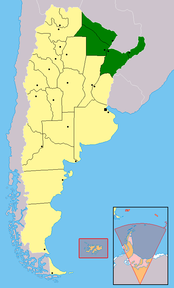 NEA (Argentine North-East) is a region in Argentina composed of Formosa, Chaco, Corrientes and Misiones provinces.